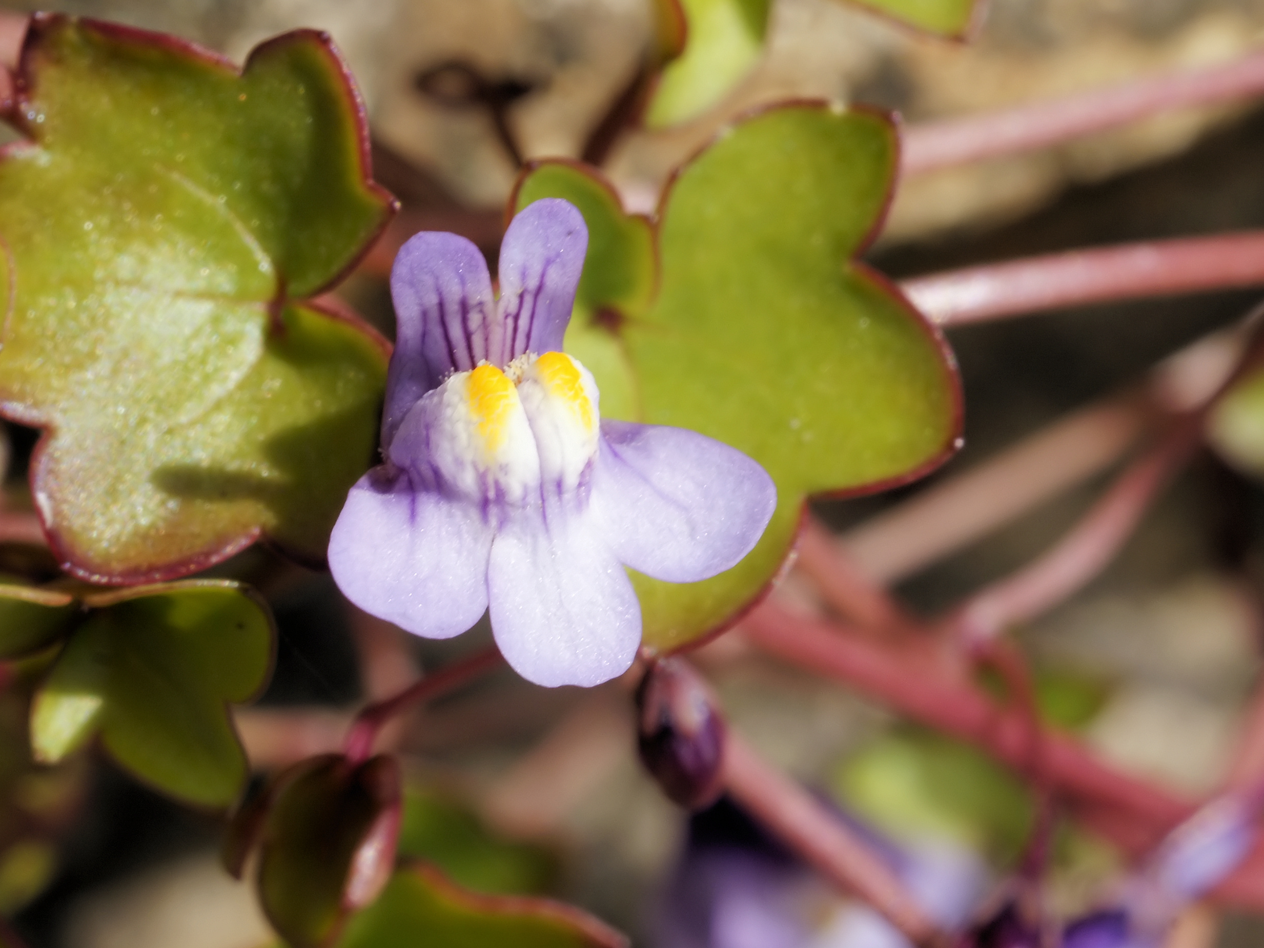 Ivy-leaved Toadflax at Boulogne sur Mer, France